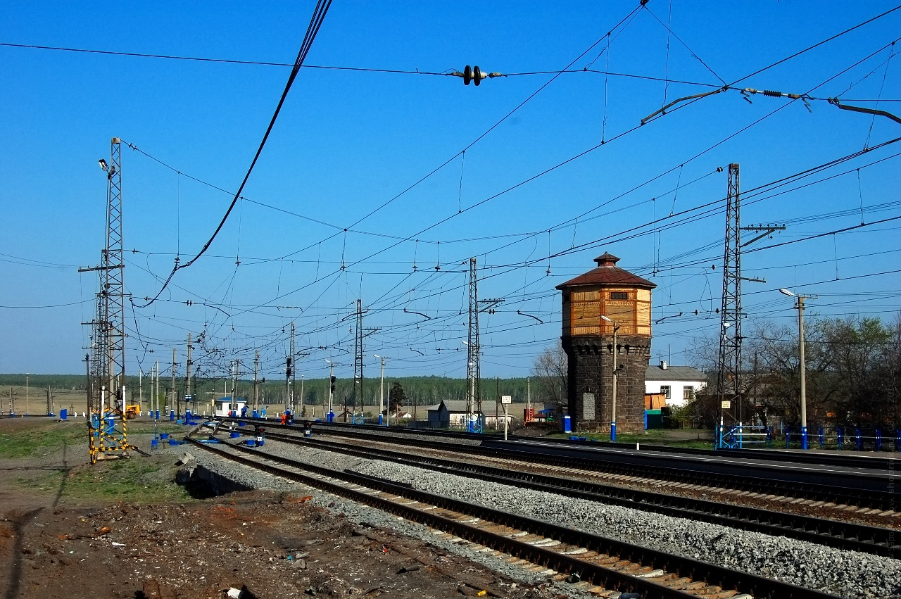 Eastern part of Bishkil station on South Ural Railway, Russia